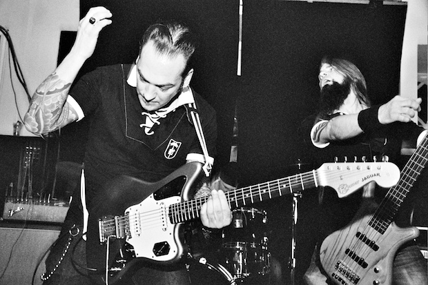 The Razorblades at Stay Sick